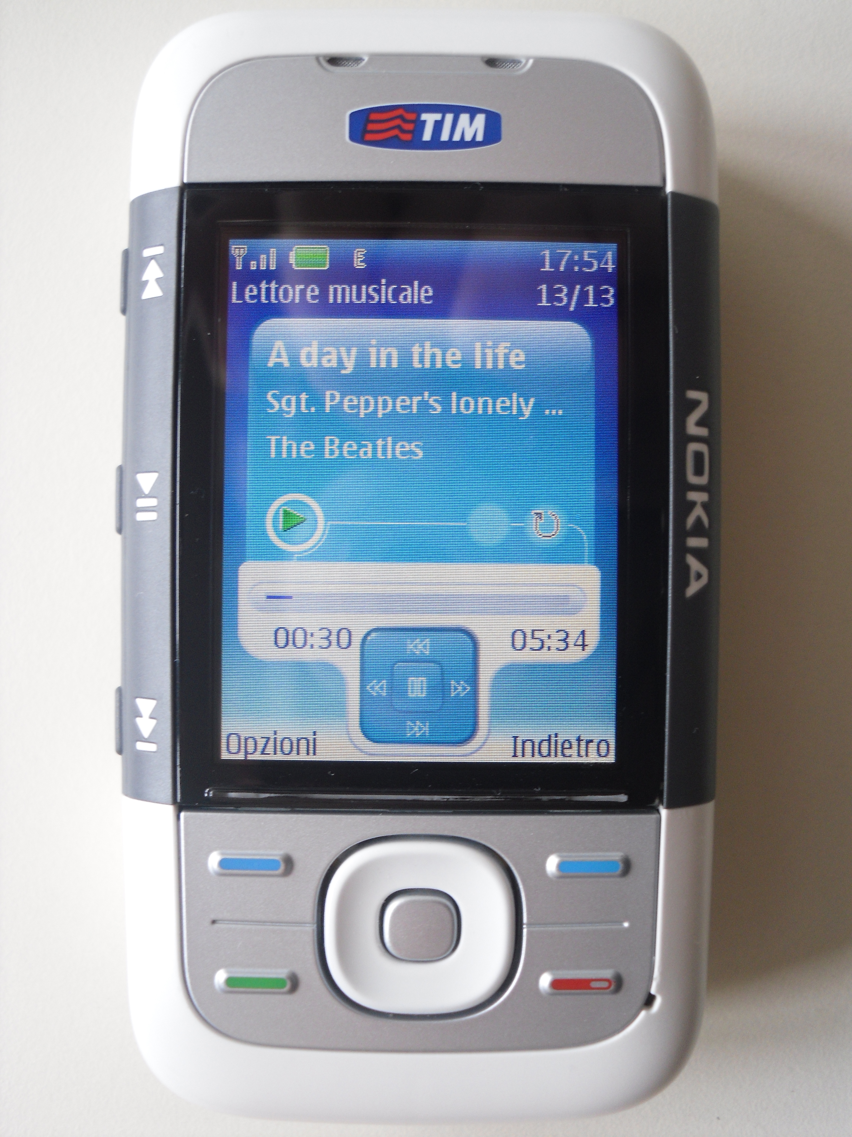 Nokia 5300's media player playing "A day in the life" by The Beatles